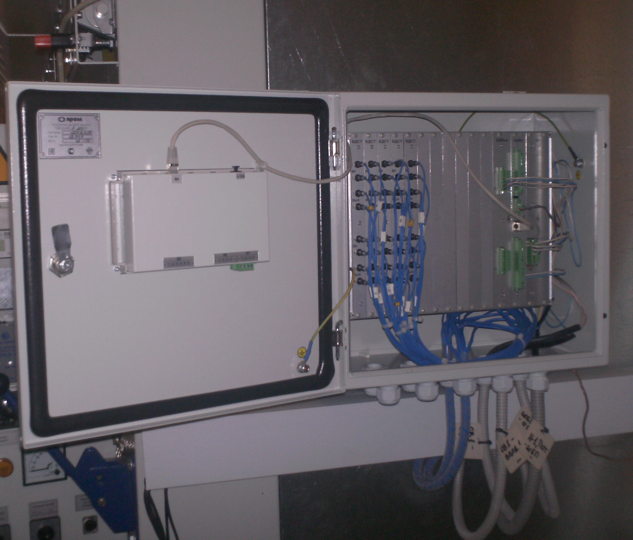 Device arc protection Ovod-MD. Unit conversion and monitoring open. Seen connected fiber optic cables (blue) coming from fiber-optical sensors.